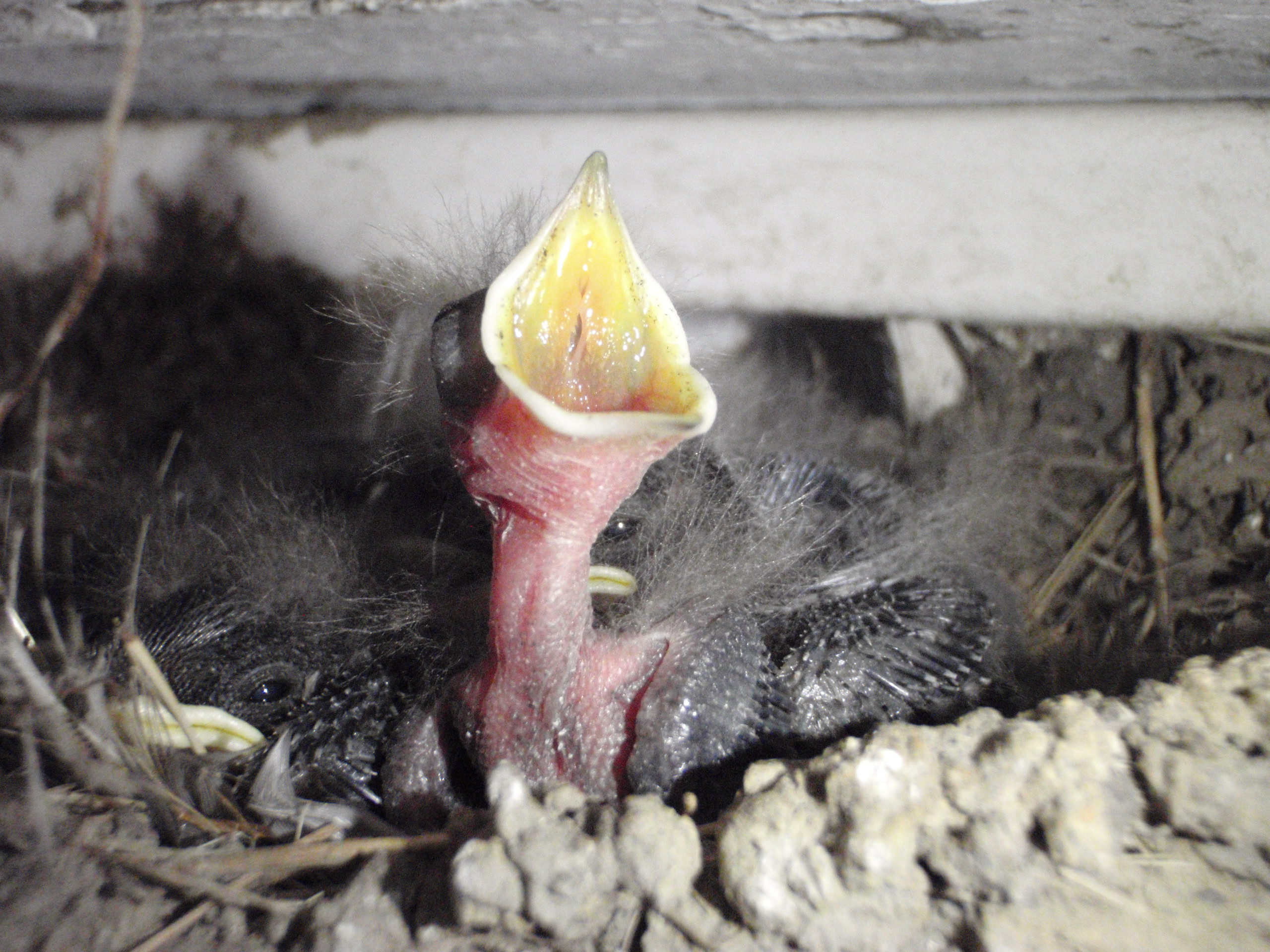 Newly hatched Barn Swallow, (Hirundo rustica), youngest nestling begging